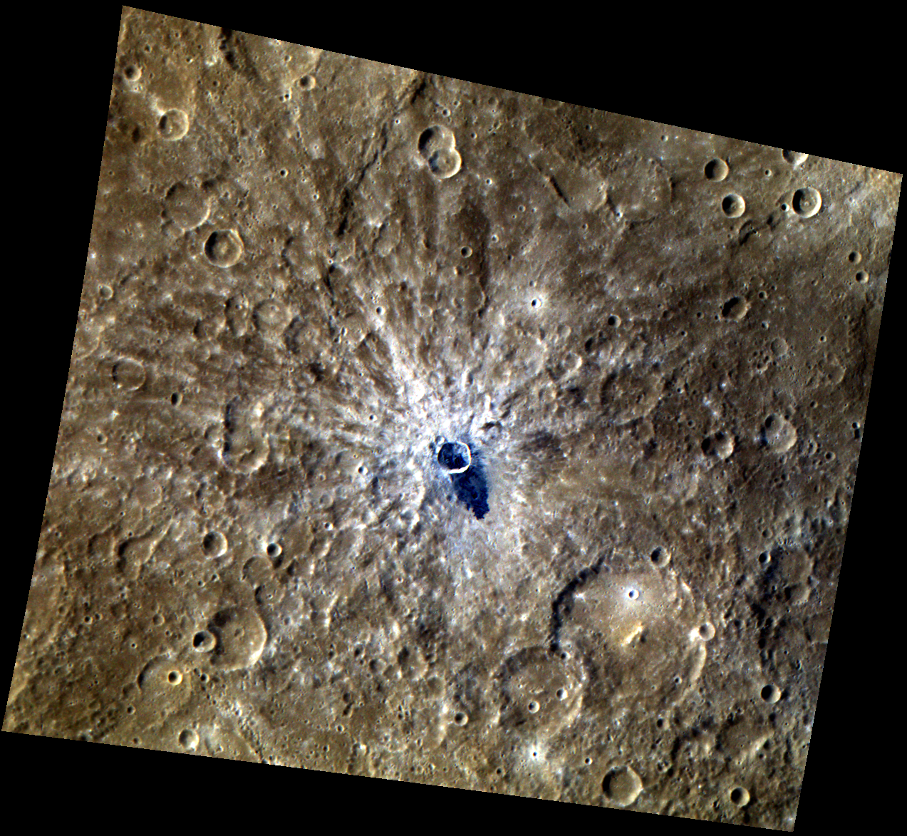 This crater is now known as Waters. Original NASA caption follows: Date acquired: May 16, 2011 Image Mission Elapsed Time (MET): 214069807, 214069811, 214069815 Image ID: 261719, 261720, 261721 Instrument: Wide Angle Camera (WAC) of the Mercury Dual Imaging System (MDIS) WAC filters: 9, 7, 6 (996, 748, 433 nanometers) in red, green, and blue Center Latitude: -8.82° Center Longitude: 254.9° E Resolution: 294 meters/pixel Scale: The center crater has a diameter of approximately 14 kilometers (9 miles) Incidence Angle: 41.8° Emission Angle: 25.6° Phase Angle: 67.4° Of Interest: This high-resolution color image shows a 14-kilometer diameter crater that is relatively young, as indicated by the bright rays that cross the neighboring features. A dark "tongue" of impact melt, which has a bluer color than the nearby surface, appears to have flowed out of the crater. This image was acquired as a high-resolution targeted observation. Targeted observations are images of a small area on Mercury's surface at resolutions much higher than the 250-meter/pixel (820 feet/pixel) morphology base map or the 1-kilometer/pixel (0.6 miles/pixel) color base map. It is not possible to cover all of Mercury's surface at this high resolution during MESSENGER's one-year mission, but several areas of high scientific interest are generally imaged in this mode each week.